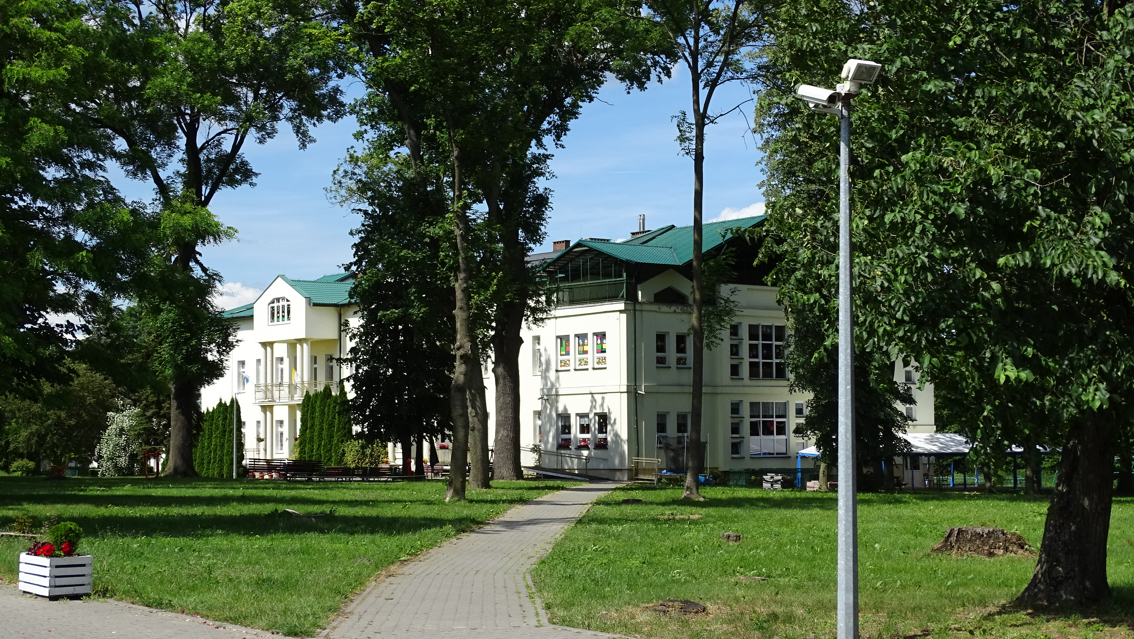 Grabie, Gmina Aleksandrów Kujawski, Poland. XIX century palace.